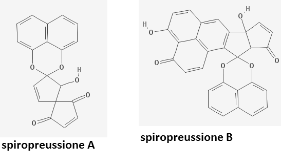 Spiropreussione A & B